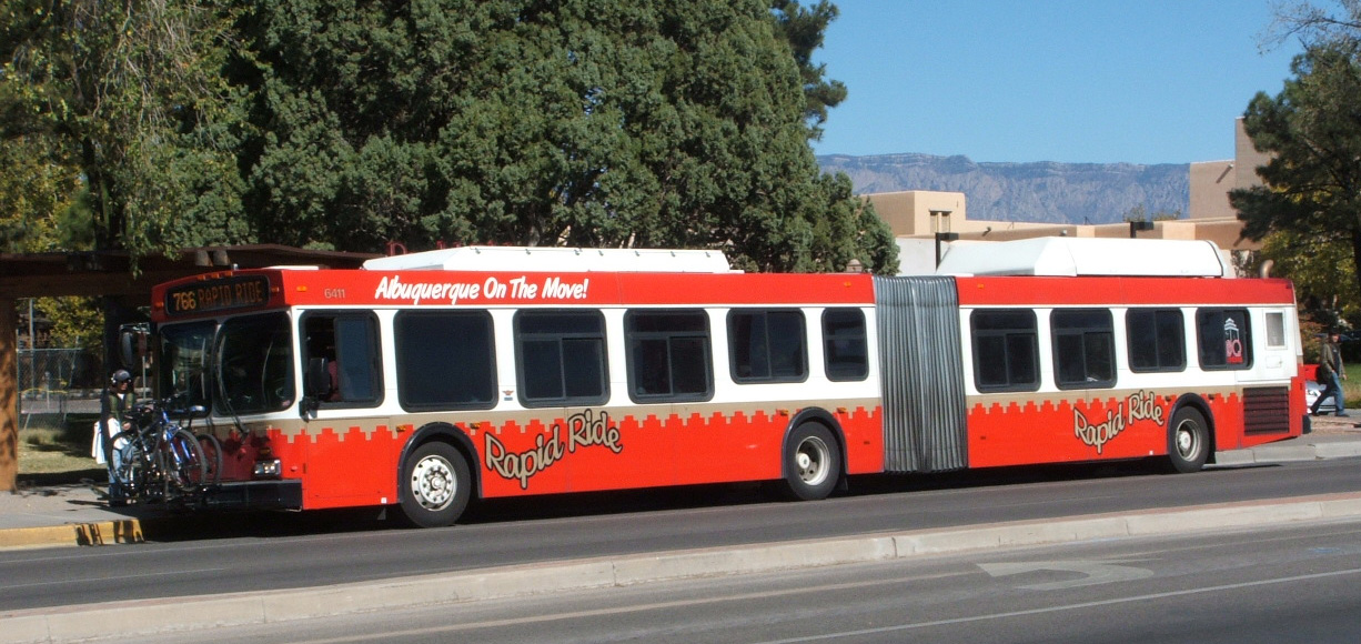 A Rapid Ride New Flyer DE60LF bus in Albuquerque, New Mexico.